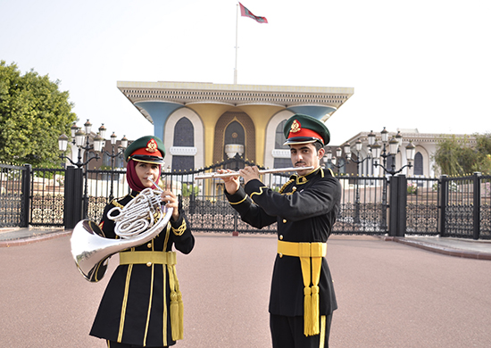 The Royal Omani Military Band